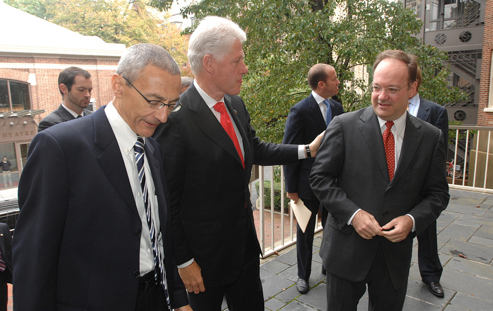 Former White House Chief of Staff John Podesta, U.S. President Bill Clinton, and Georgetown University president John J. DeGioia outside Old South on Georgetown University's main campus.